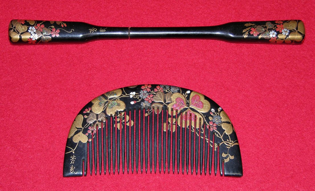 Right side. Made from wood, lacquer-corted. Period isn't clear (maybe Maiji or Taishō).